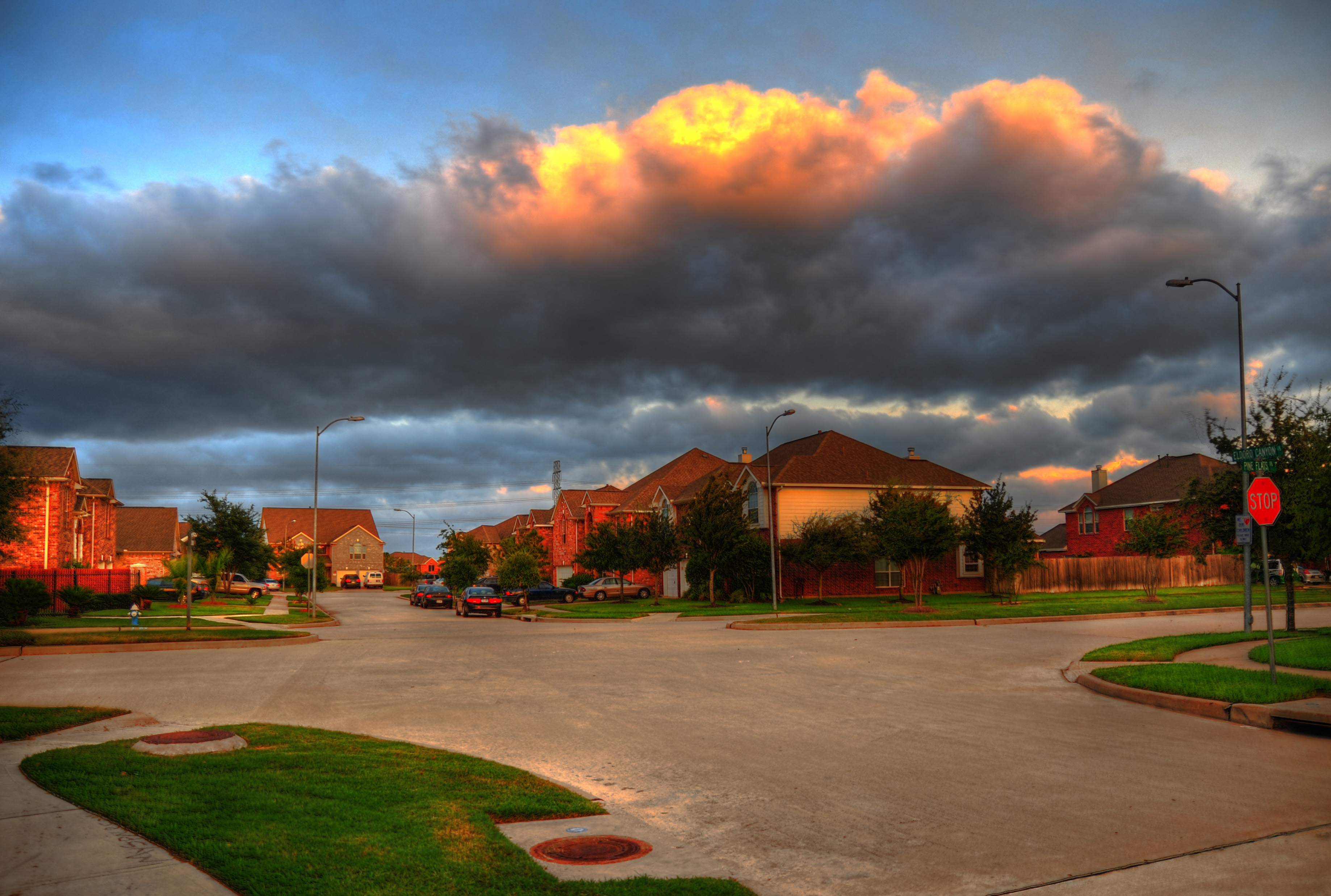 Sunset in Houston, Texas, as Ike approaches